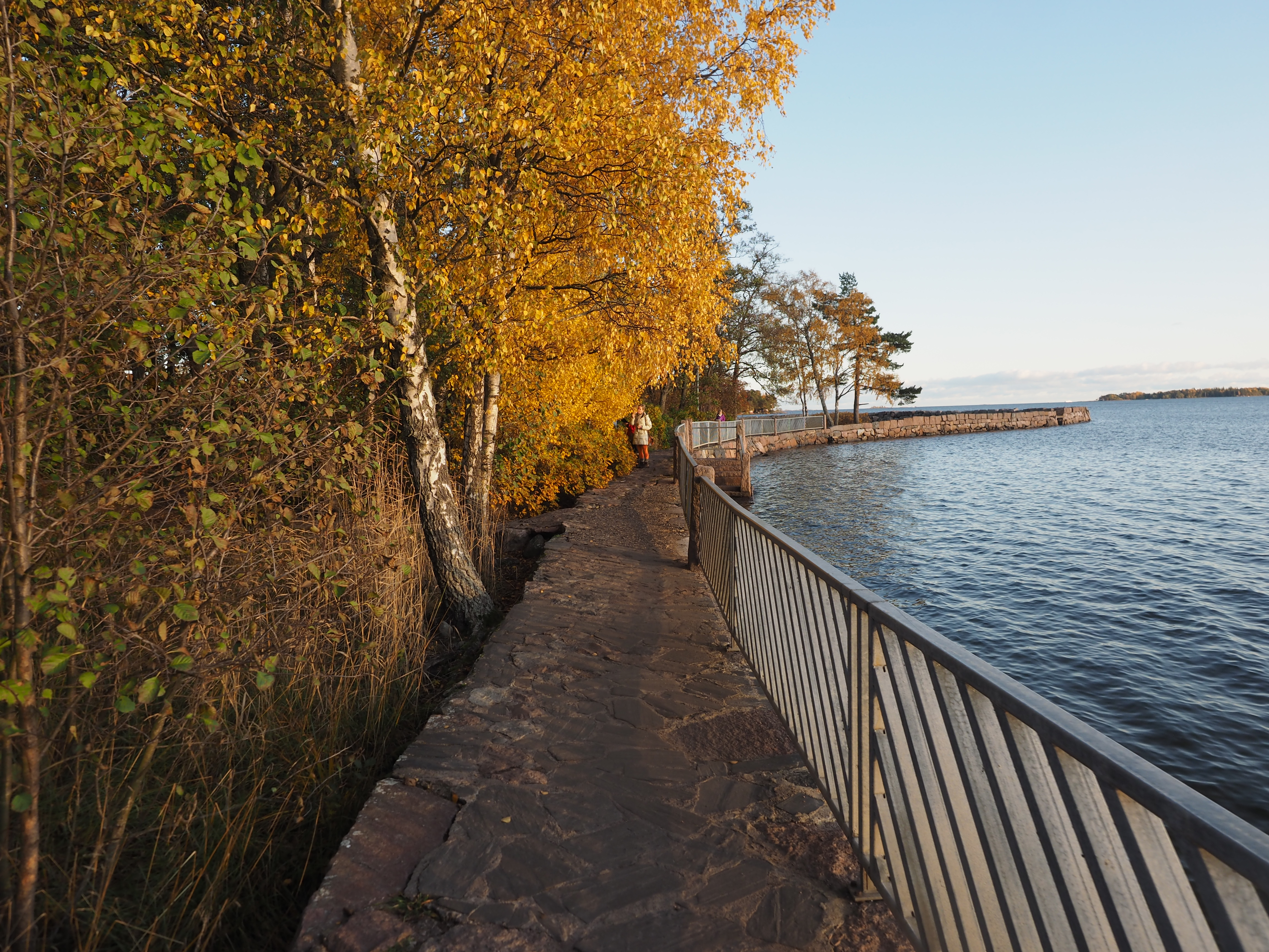 A breakwater at the Toppelund beach in Haukilahti, Espoo, Finland, photographed near its starting point.